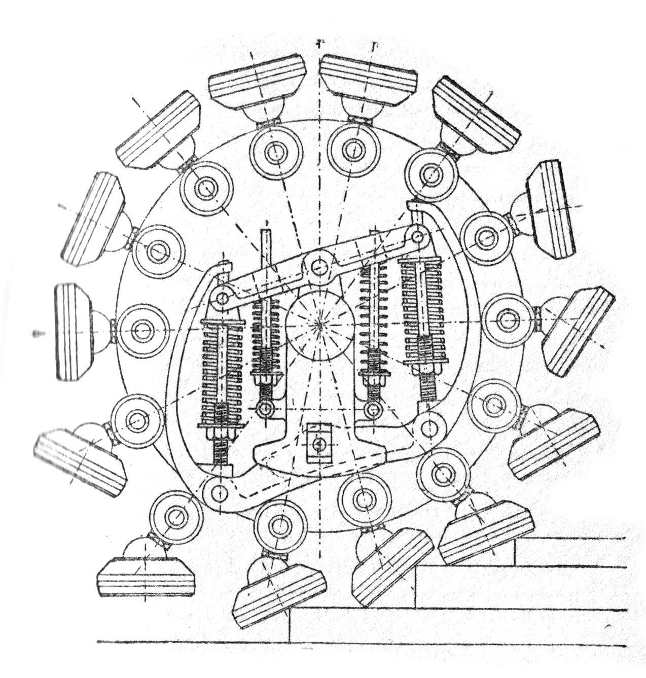 Pedrail wheel, climbing stairs (Wonders of Mechanical Ingenuity, 1911).jpg